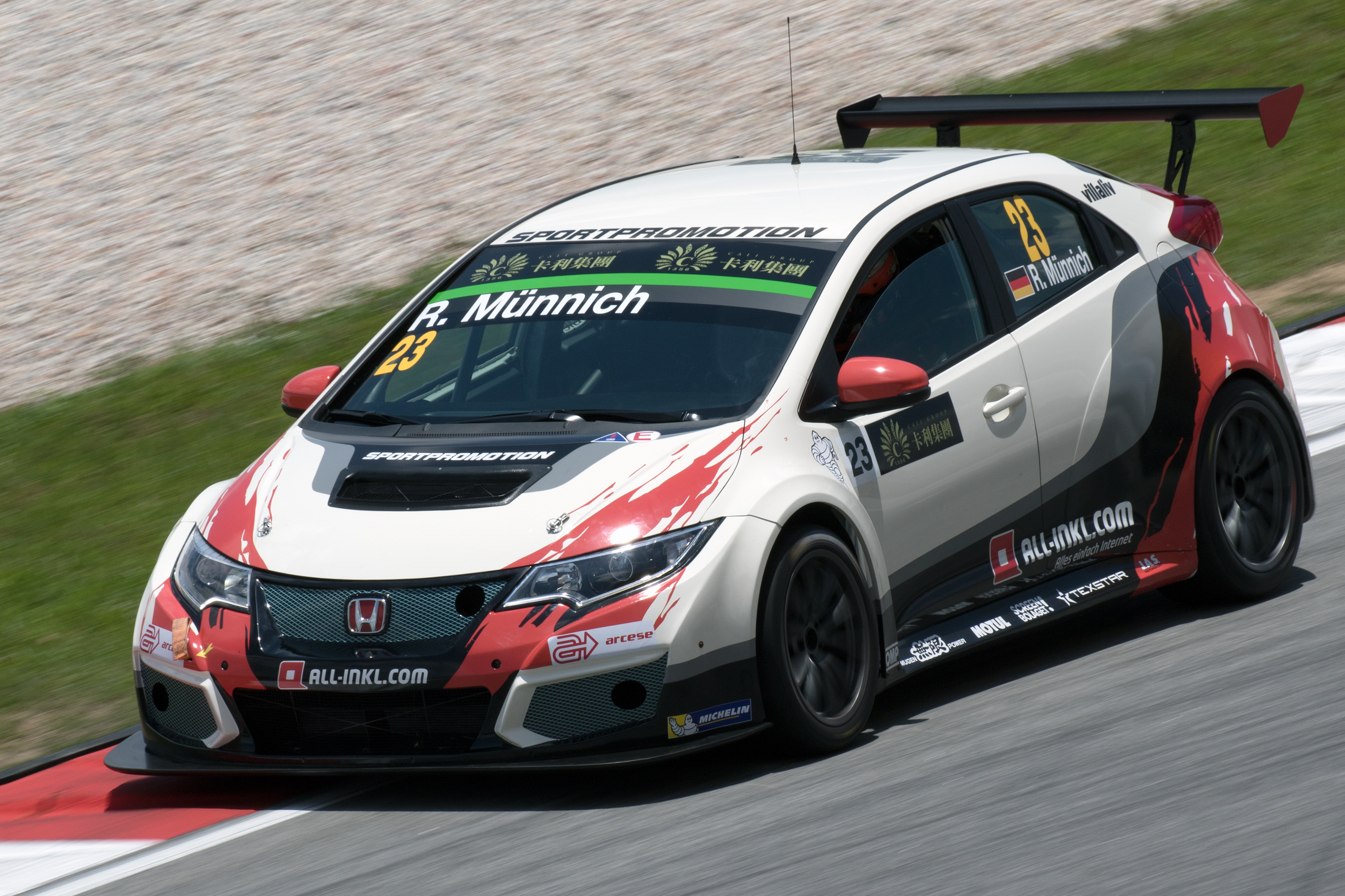 TCR International Series 2015 Rd.1 Malaysia: René Münnich (WestCoast Racing)